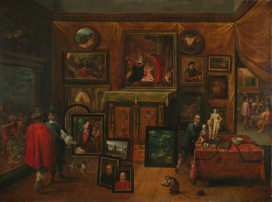 The Interior of a Picture Gallery (58.5 x 79 cm), attributed to Frans Francken the Younger and David Teniers the Younger, c. 1615 and 1650 (The Courtauld Gallery, London)